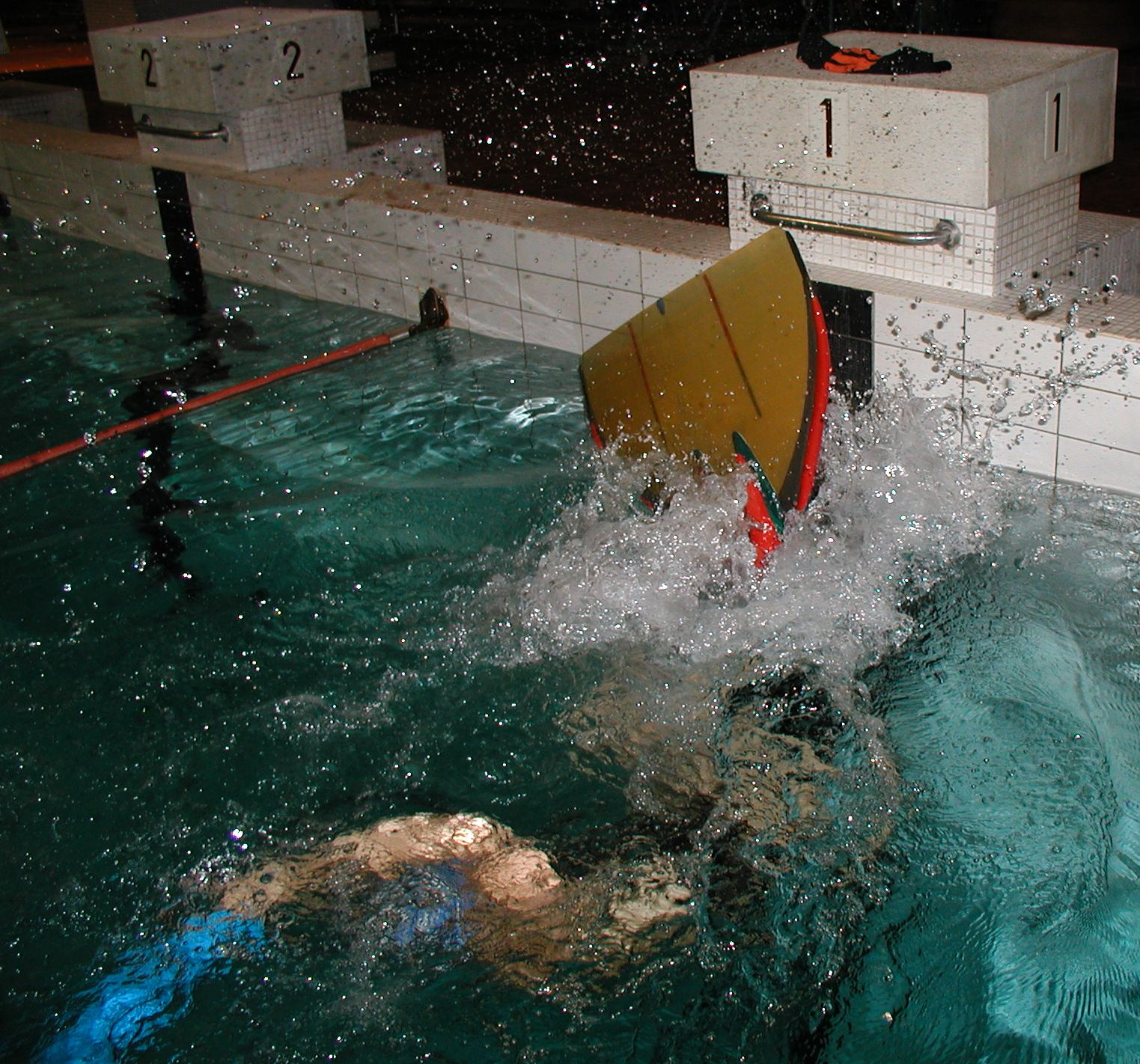 Turn with monofin